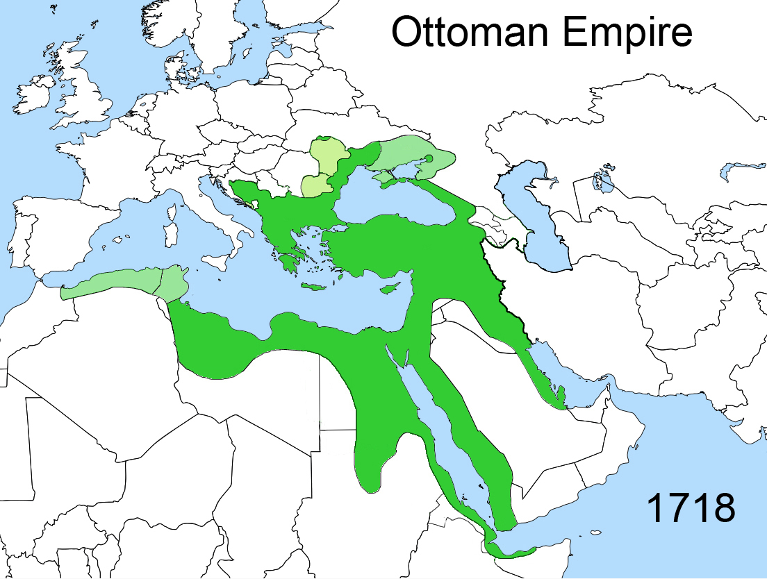 Territorial changes of the Ottoman Empire